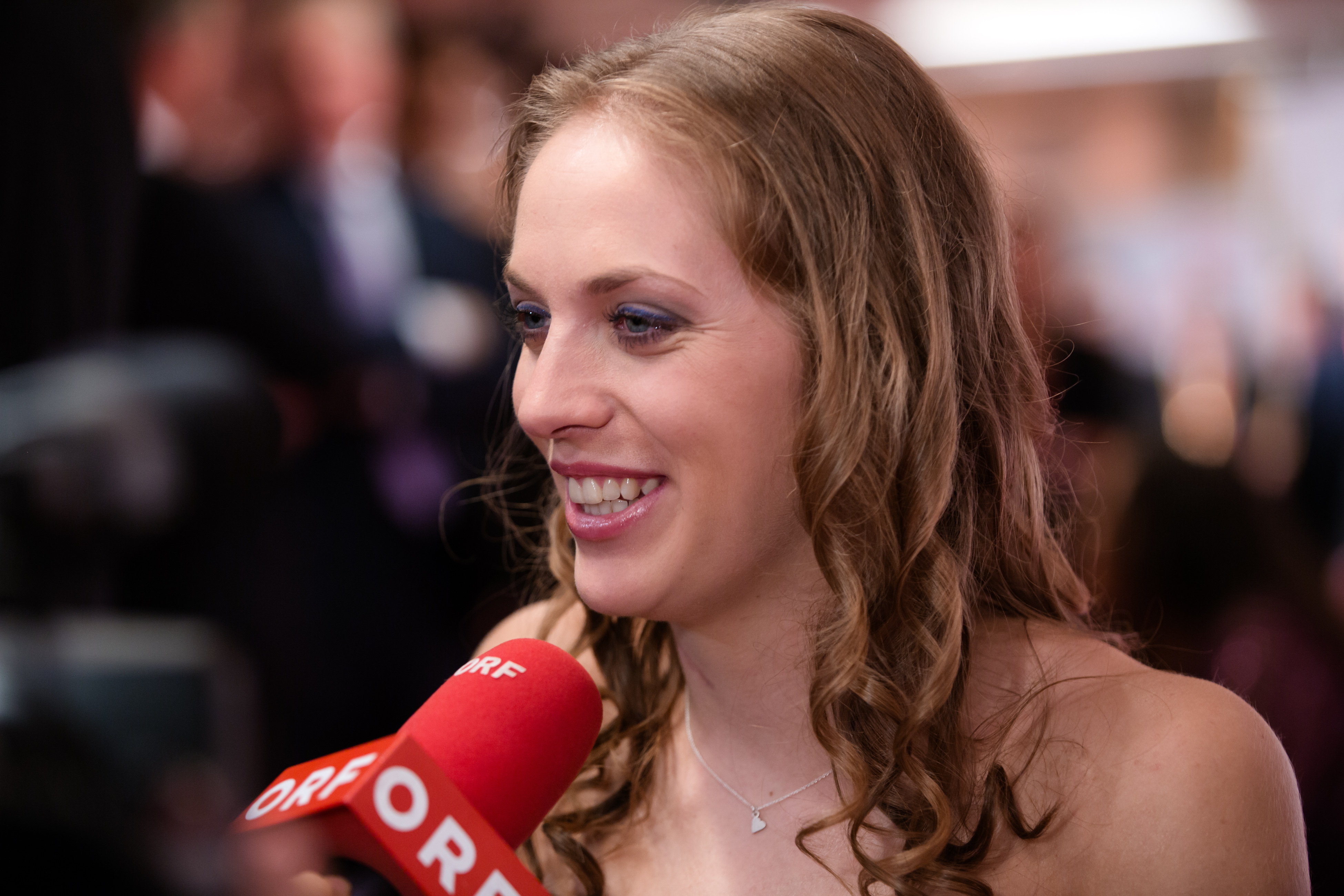 Kira Grünberg at the gala for the Austrian Sportspersonalities of the Year 2015 (Austria Center Vienna).